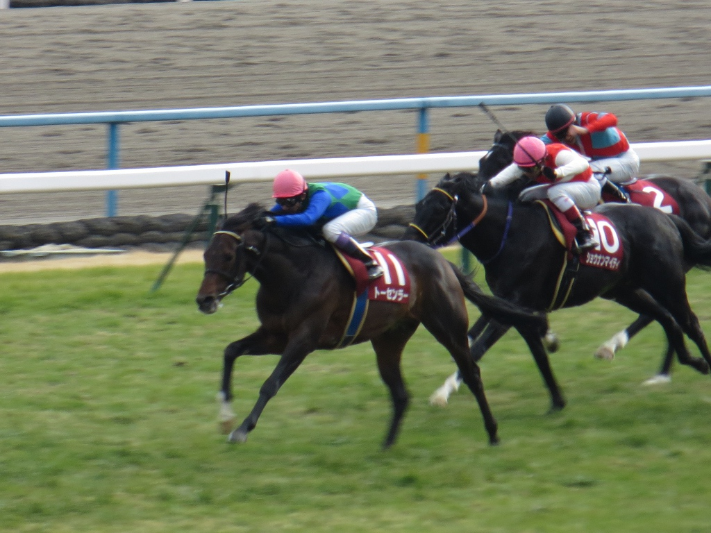 Tosen Ra (Japanese race horse) in 106th Kyoto Kinen (Kyoto Racecourse).